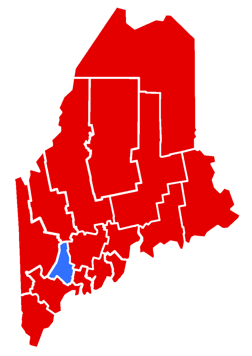 Maine gubernatorial election by county. Made in photoshop.